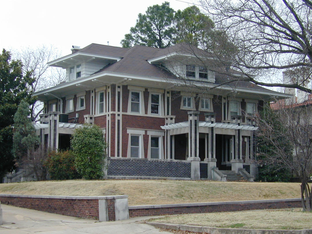 House in Muskogee County, Oklahoma.